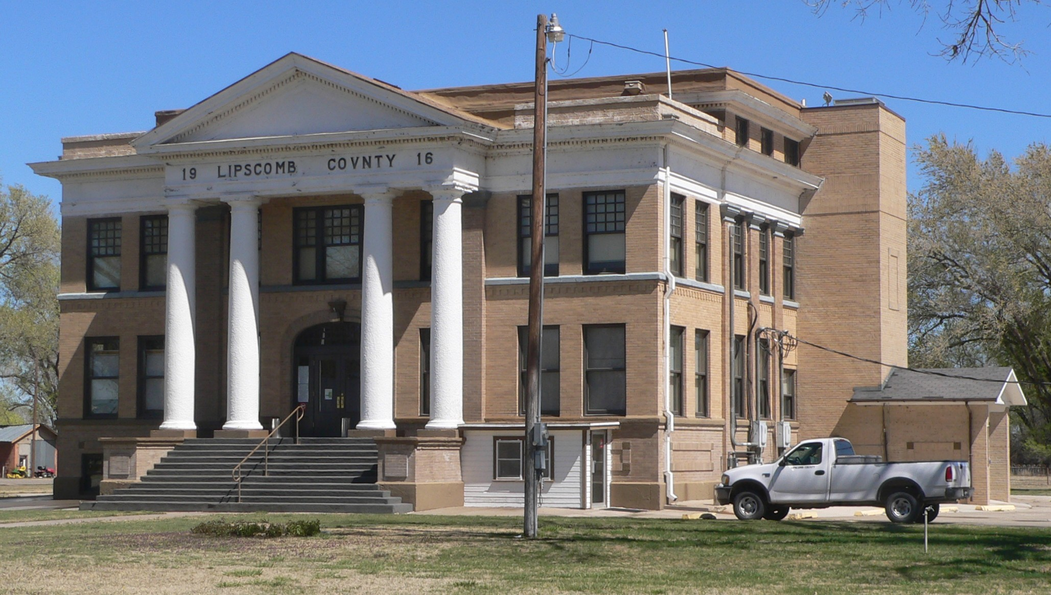 Lipscomb County courthouse in Lipscomb, Texas; seen from the southwest.